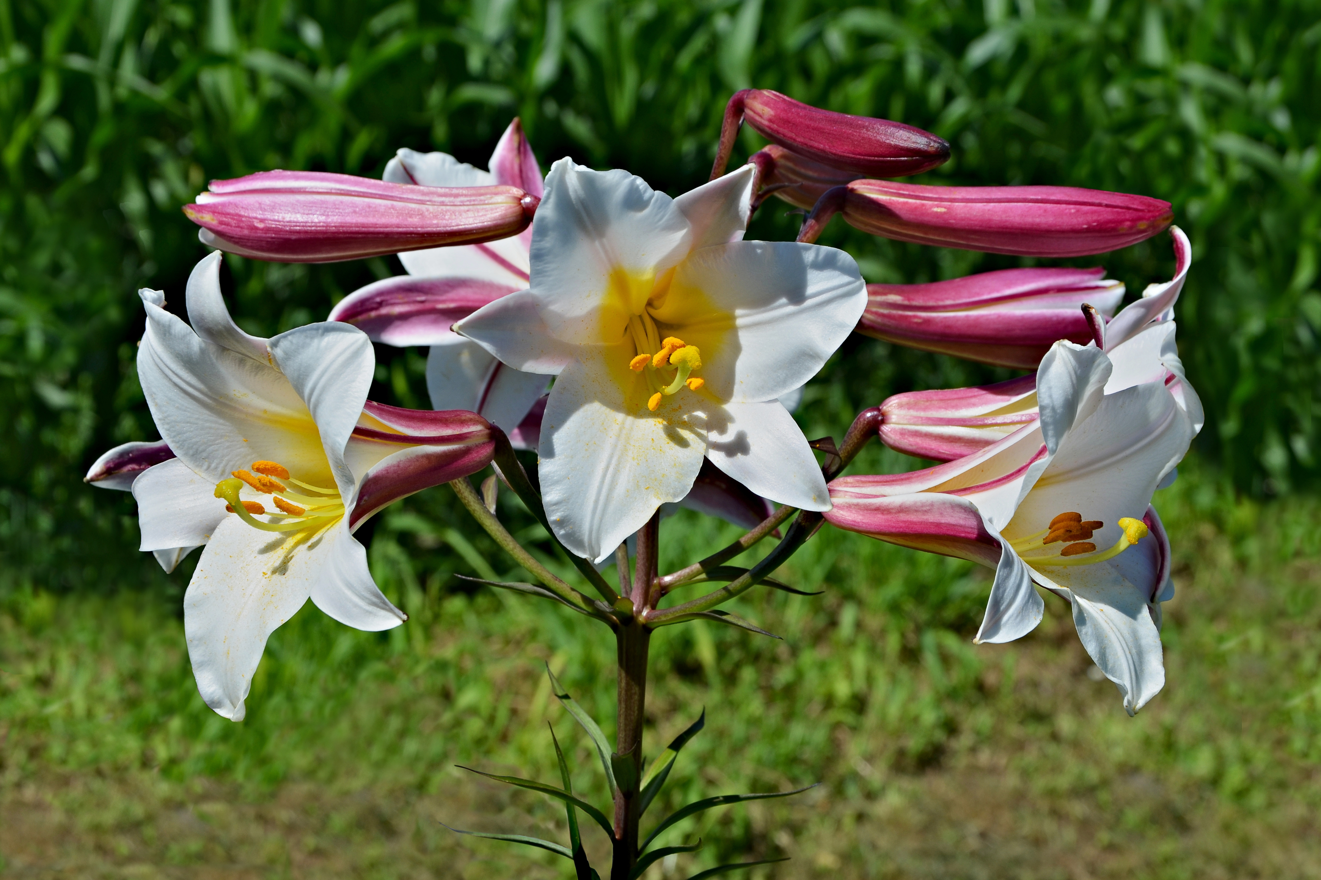 Royal lily (Lilium regale), inflorescence, in a garden, France.